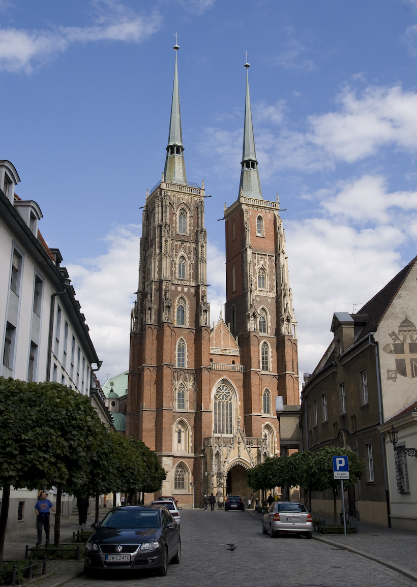 Cathedral church in Wrocław, Poland as of summer 2007, view from the Katedralna Street